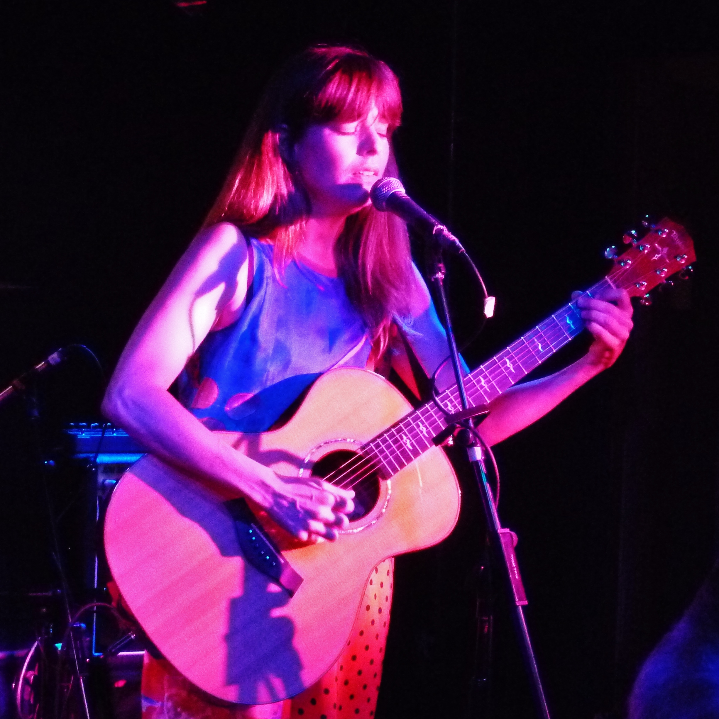 Sylvie Lewis playing the Water Rats Theatre, June 28th 2013.